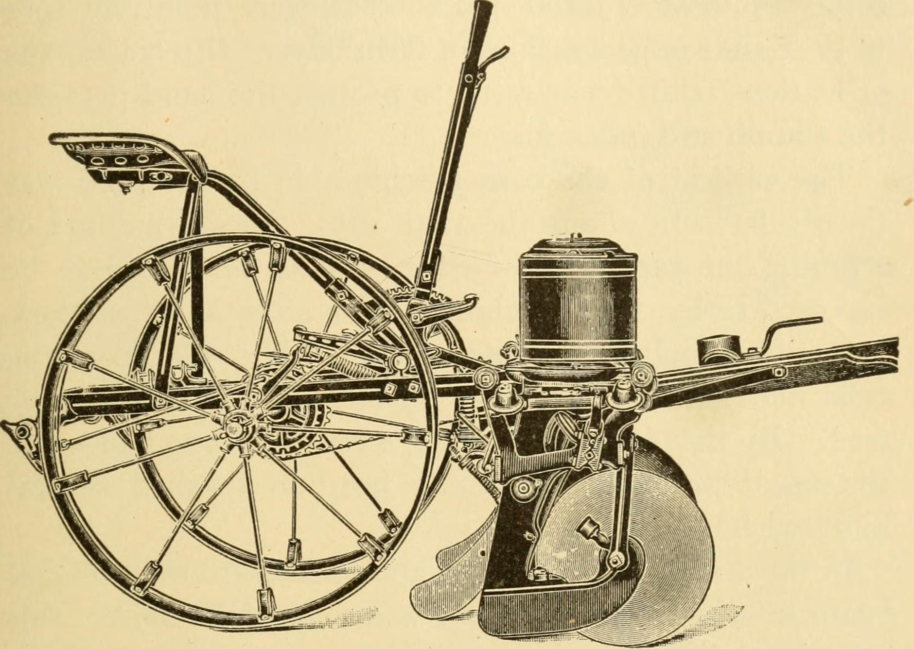 Title: The story of agriculture in the United States Year: 1916 (1910s) Authors: Sanford, Albert Hart, 1866- (from old catalog) Subjects: Agriculture Publisher: Boston, New York (etc.) D. C. Heath and co Text Appearing Before Image: Hay Loader THE AGE OF MACHINERY 253 hay is improved and it is more profitable than formerly inmoist regions. Improvements in hay balers, operatedby horse, steam, or gasoHne power have aided greatly inmaking the hay crop of the country one of the mostvaluable that is produced. Text Appearing After Image: Corn Planter with Disk Furrow Openers We have seen that improved machinery made morerapid the westward spread of wheat raising, and thatthe cheap wheat from the grain fields of the Far Westcompelled the farmers of the Middle West to turn toother crops and to mixed farming. The latter foundtheir greatest profit in the growing of corn as feed forlive-stock. This change, in turn, hastened the invention of ma-chinery with which to handle the immense corn crops.The corn planter and the cultivator had already come 254 AGRICULTURE IN THE UNITED STATES into use, but the stalks were still cut with the corn knife,or were left standing in the field. The ears were huskedby the aid of the husking peg and were broken off andthrown into a wagon that was driven slowly through thefield. This work, generally undertaken after frost hadcome, brought cracked joints that were painfully soreto the hands of generations of farm boys. Often a canvasor leather stall was worn to protect the hand betweenthe thumb